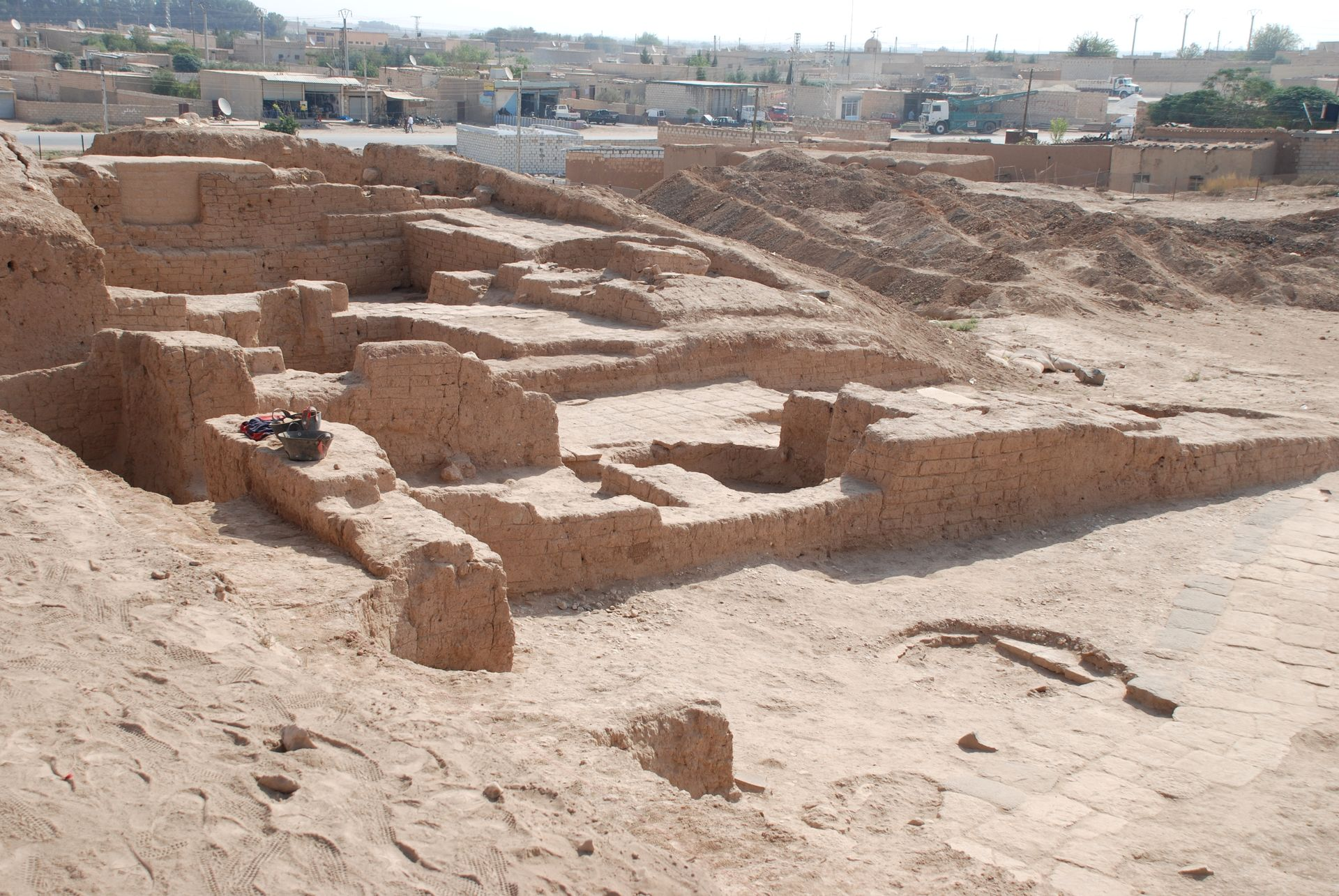 Tell Halaf, Syria, northeast palace